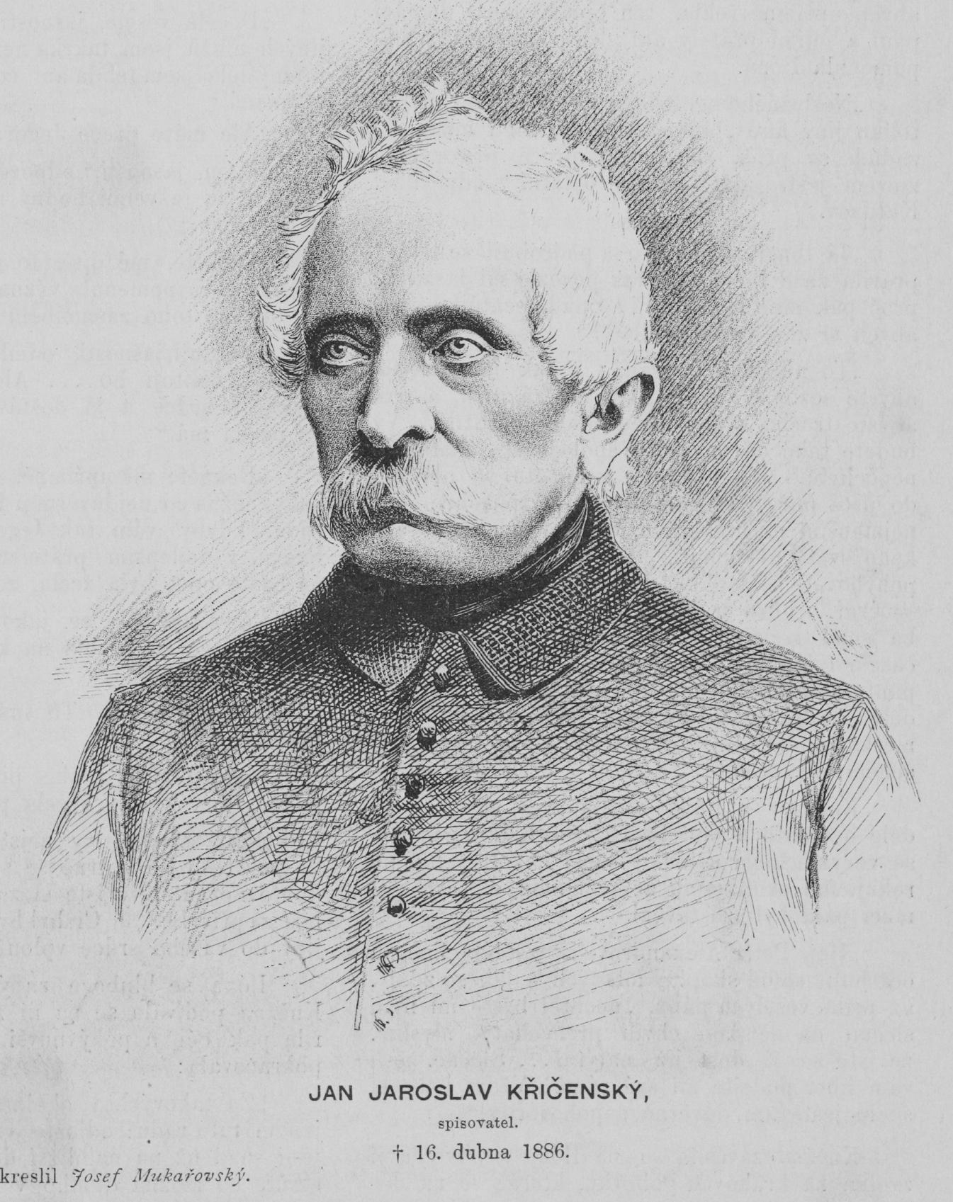 Portrait of Josef Jaroslav Křičenský (1812 - 1886), Czech writer. The caption incorrectly shows his first name as "Jan".